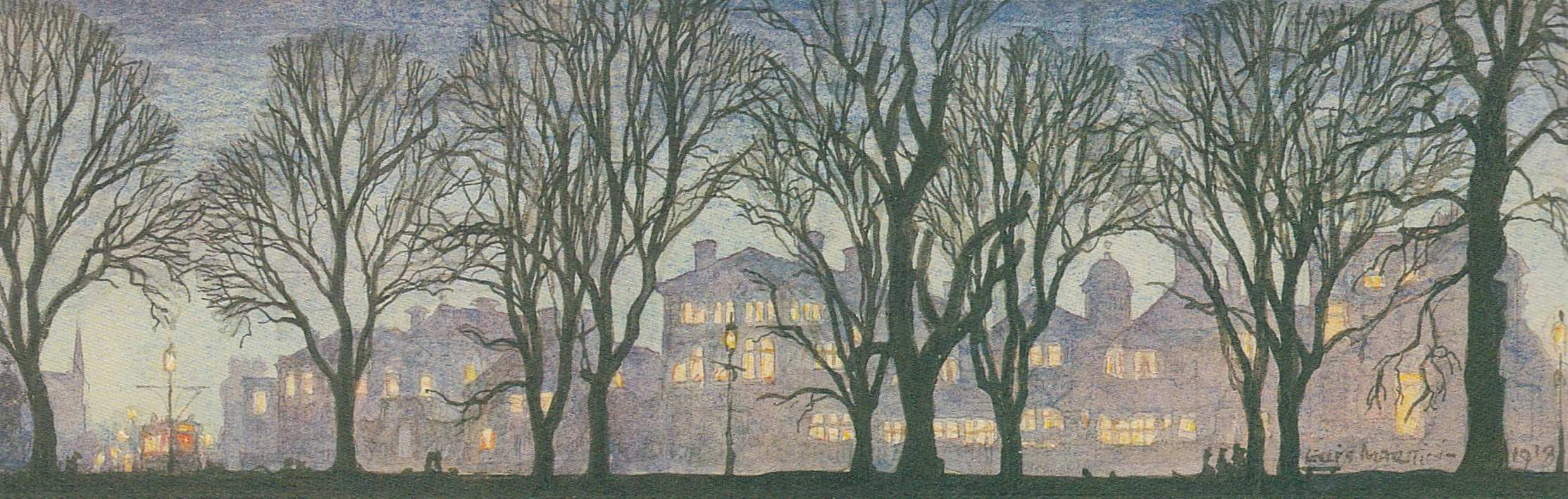 Ordnance Survey Christmas card 1918, Ellis Martin